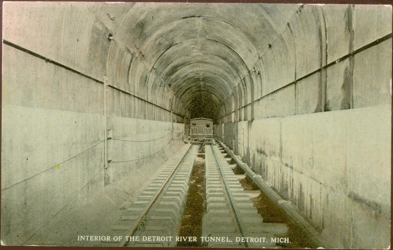 Picture of interior of Detroit River railroad tunnel. Caption on opposite side of card states: "INTERIOR OF DETROIT RIVER TUNNEL. / DETROIT, MICH. / The Detroit River Tunnel was built for the M. C. R. R. at a cost of $8,500,000. It is 1 3/8 miles in length. Construction was started in July 1906 and completed July 1, 1910. Electricity, the third rail system, furnishes the motive power for the engines." Opposite side of card also states: "A76549", some kind of postcard inventory number